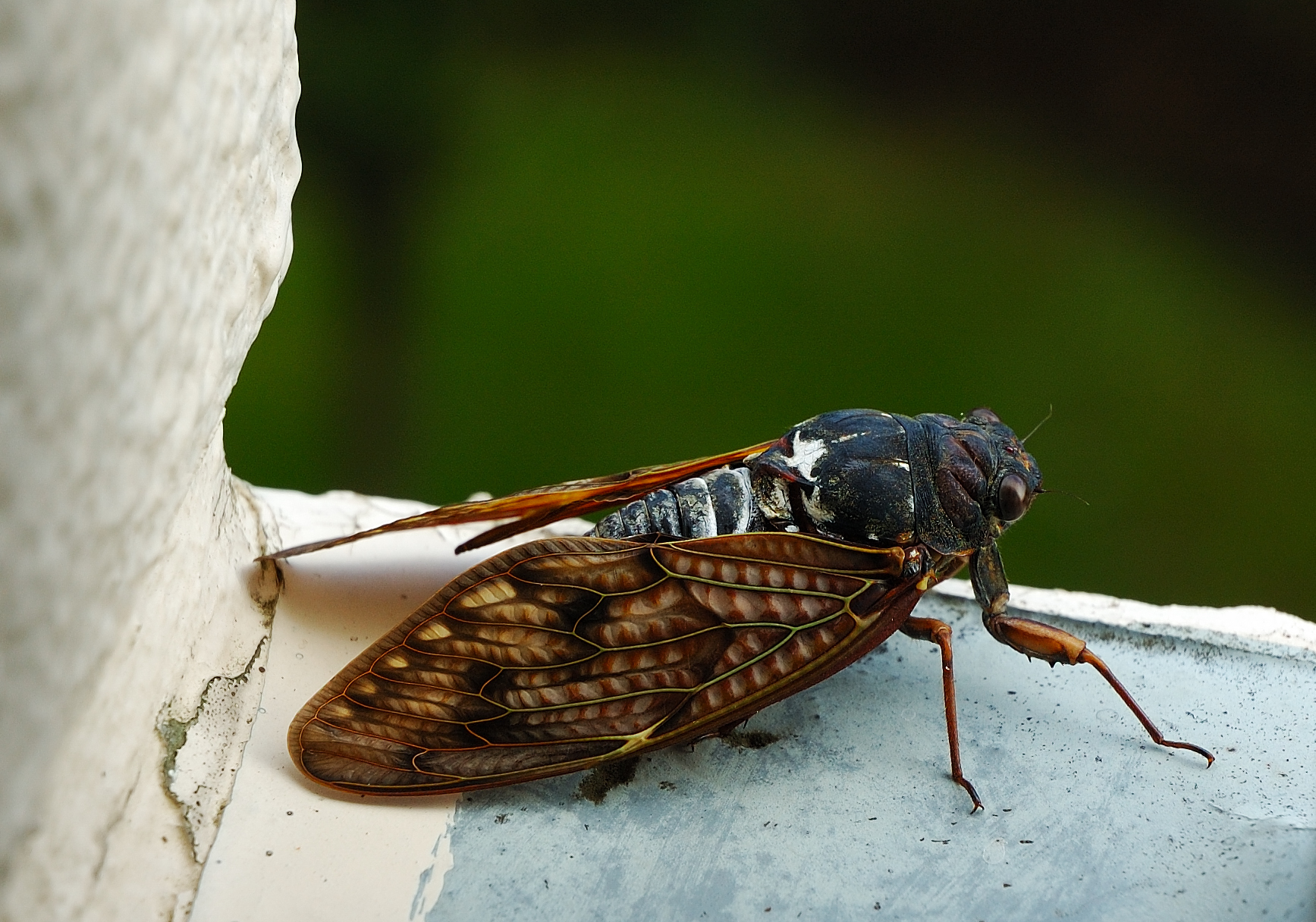 Cicada insect commonly called Aburazemi (油蝉) in Japanese. Latin name: Gratopsaltria nigrofascata Location: Kirigaoka, Midori-ku, Kanagawa-ken, Japan.